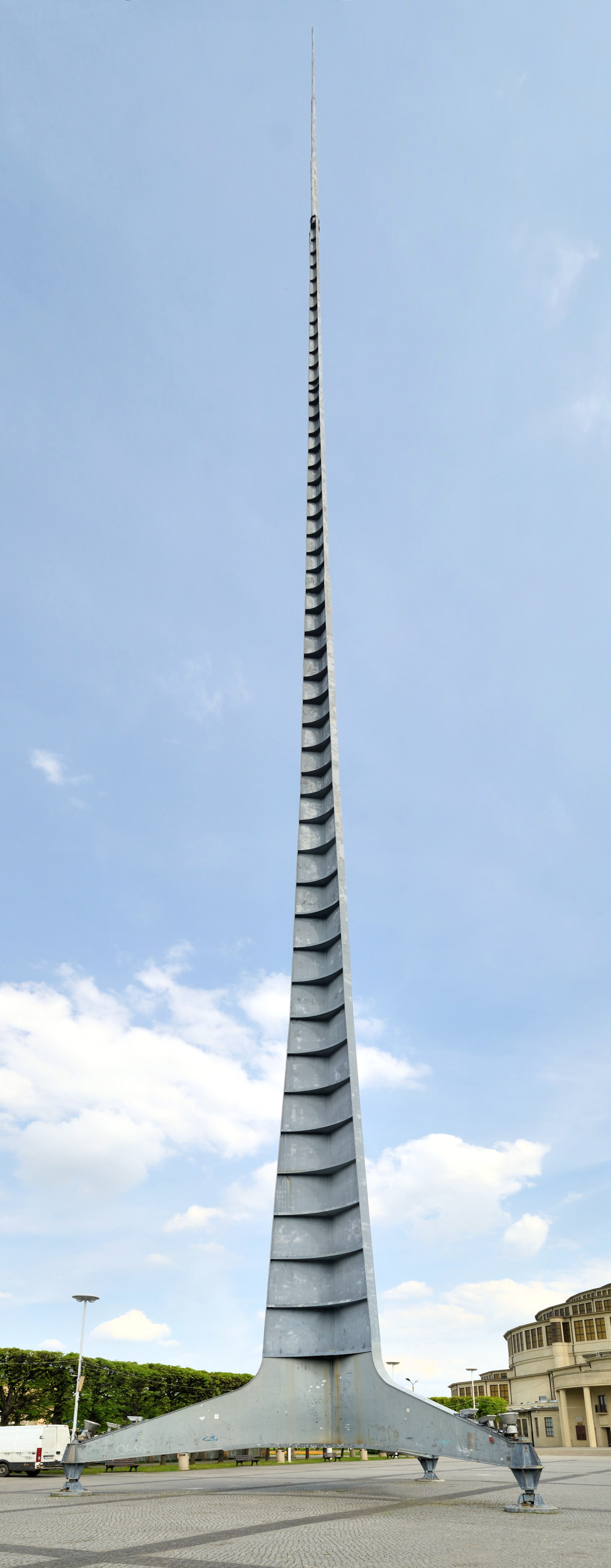 Iglica in Wrocław, Poland